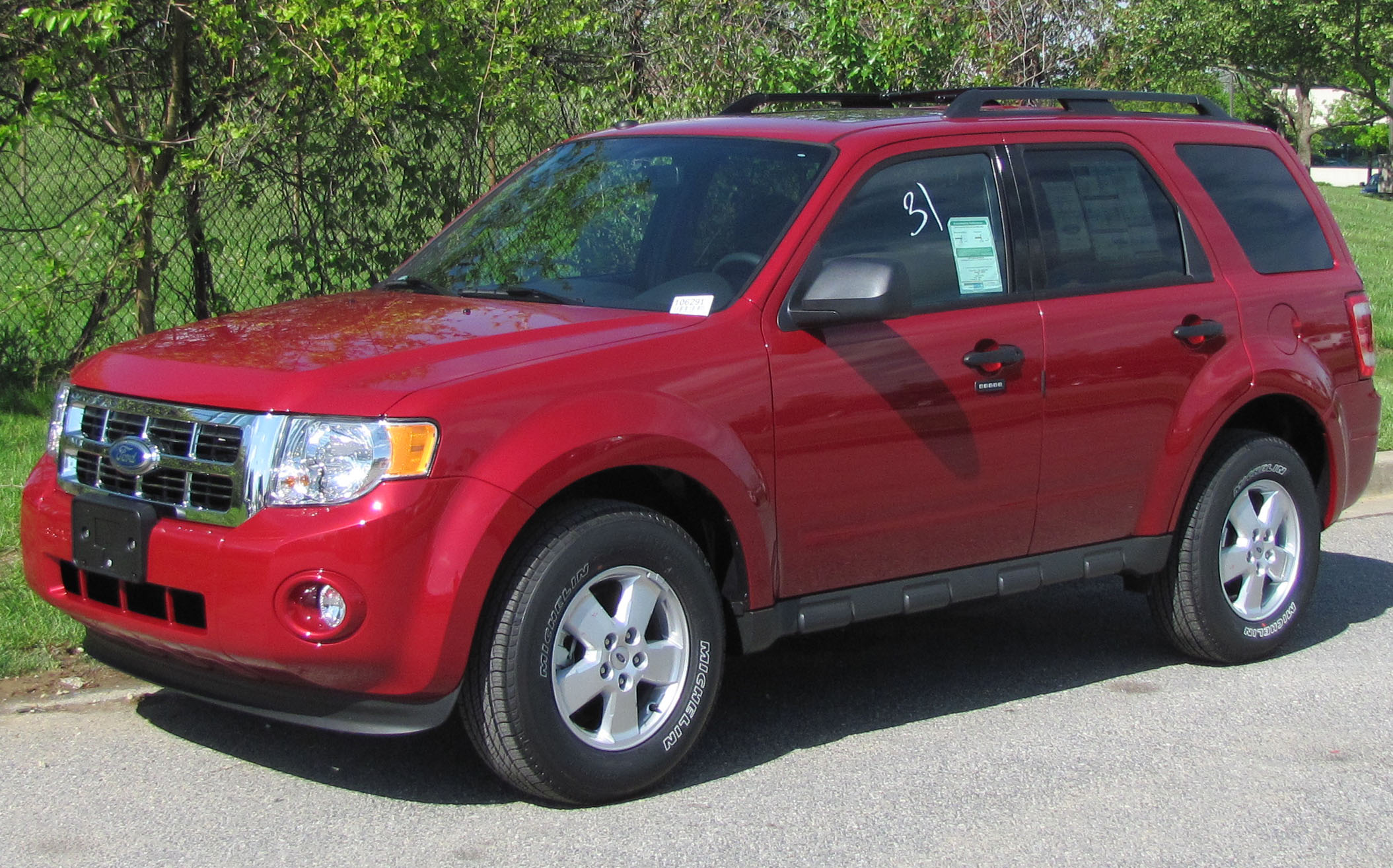 2010 Ford Escape photographed in Columbia, Maryland, USA.